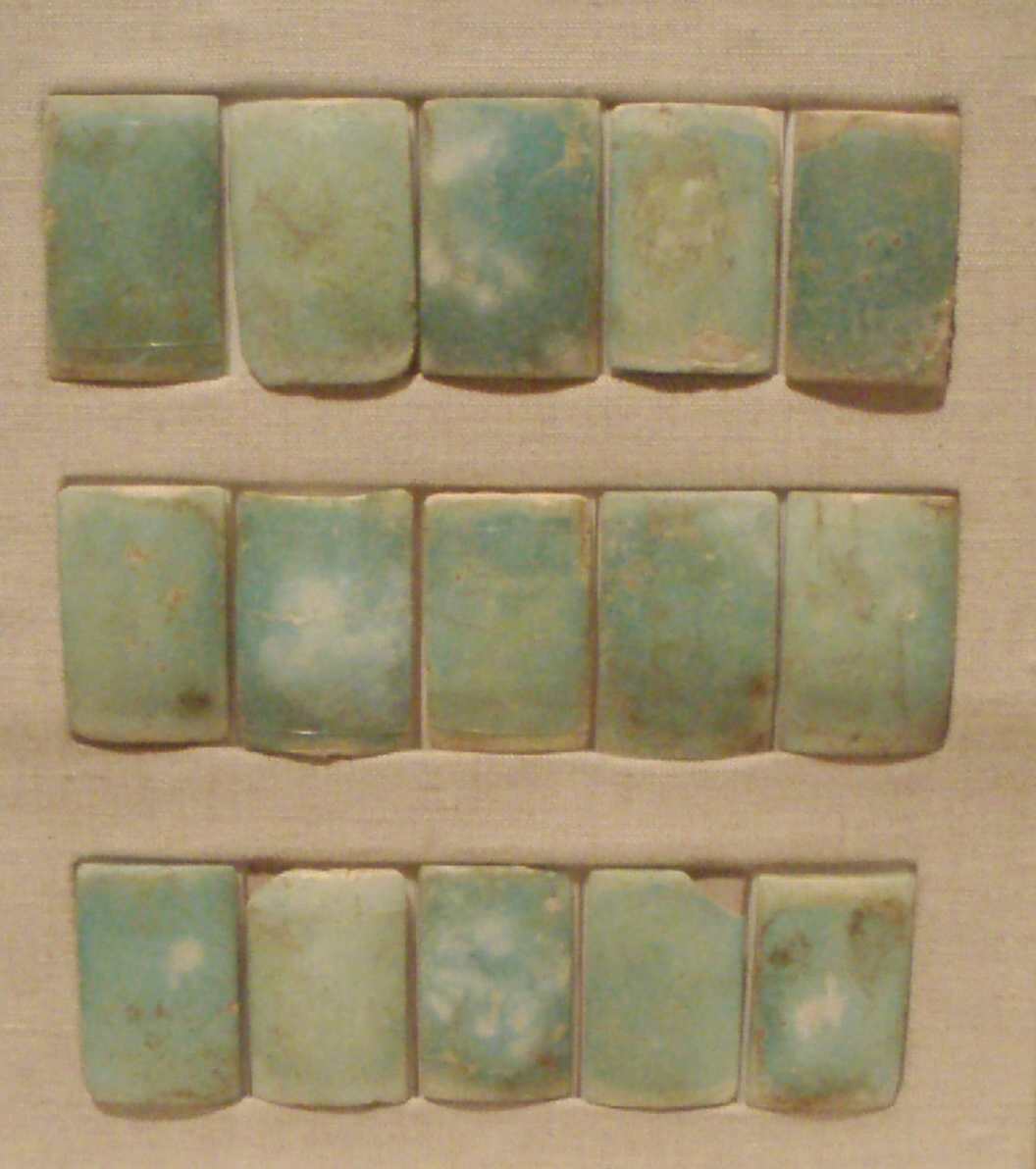 Faience inlays from the Step Pyramid of Djoser. From the 3rd dynasty, circa 2686-2613 B.C. Originally from Sakkarra, now residing in the Museum of Fine Arts, Boston.